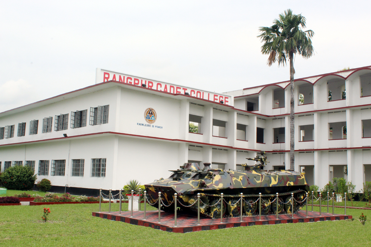 Front view of the college